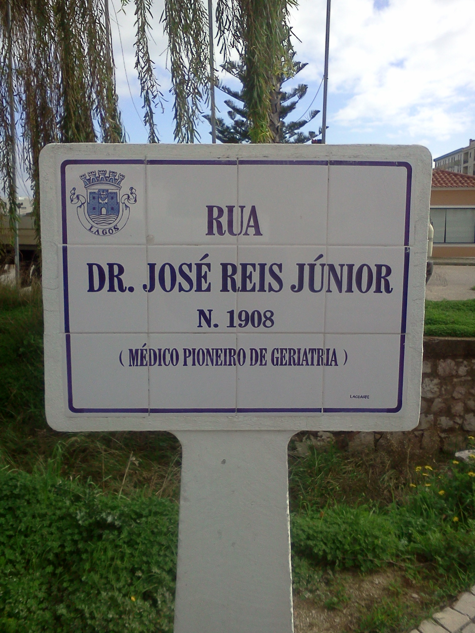 Street sign of Rua Dr. José Reis Júnior, in the city of Lagos, in southern Portugal.